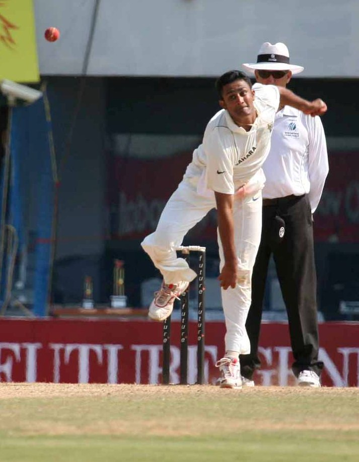 Anil Kumble of India in action - South Africa tour of India, 1st Test: India v South Africa at Chennai, Mar 26-30, 2008